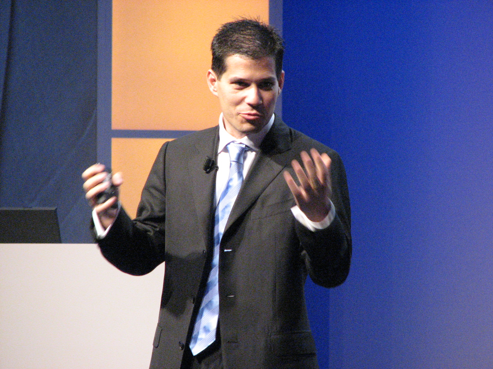 Shai Agassi presenting at the EMEA Enterprise Services Partner Summit 2006